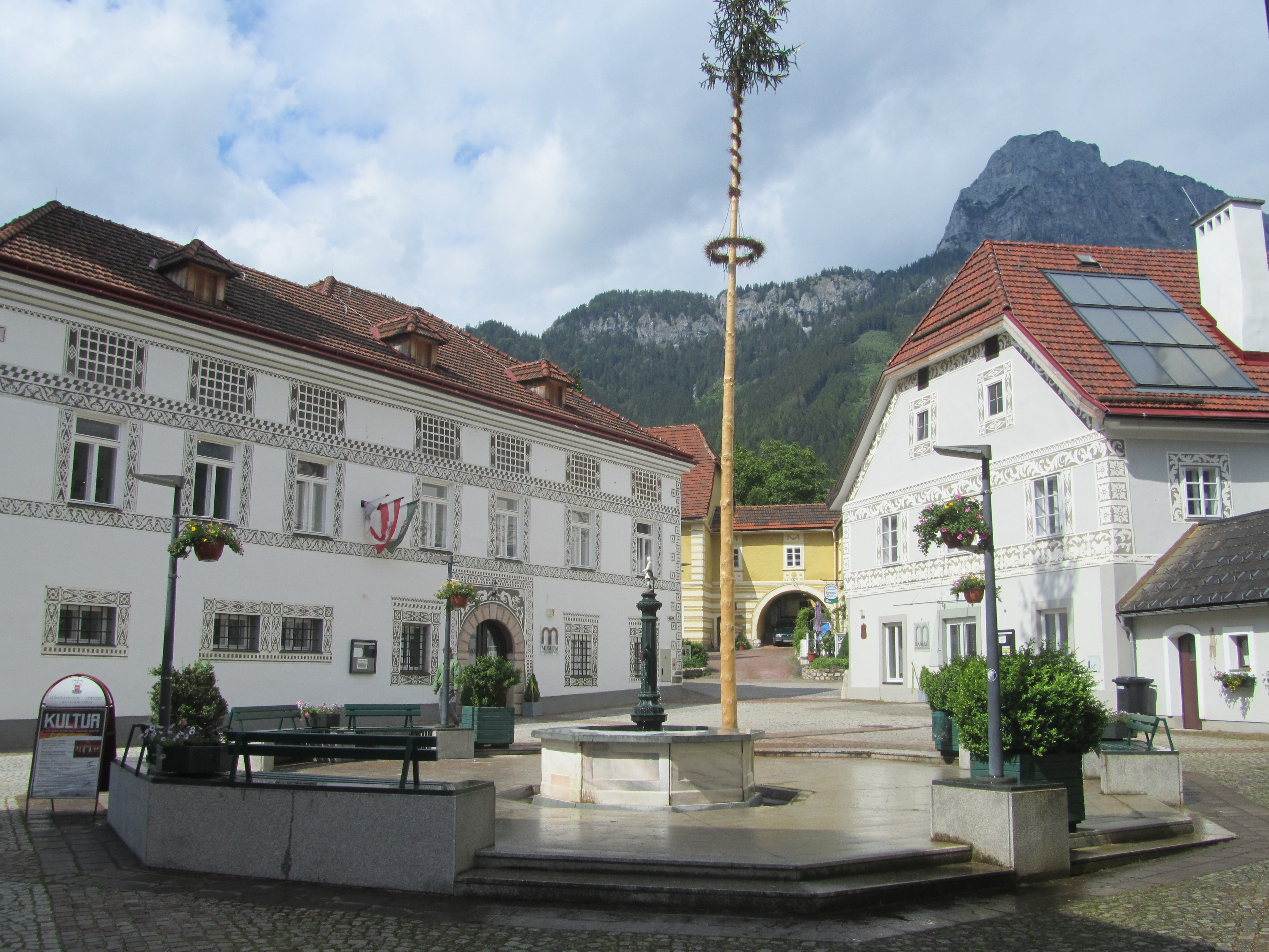 Townsquare